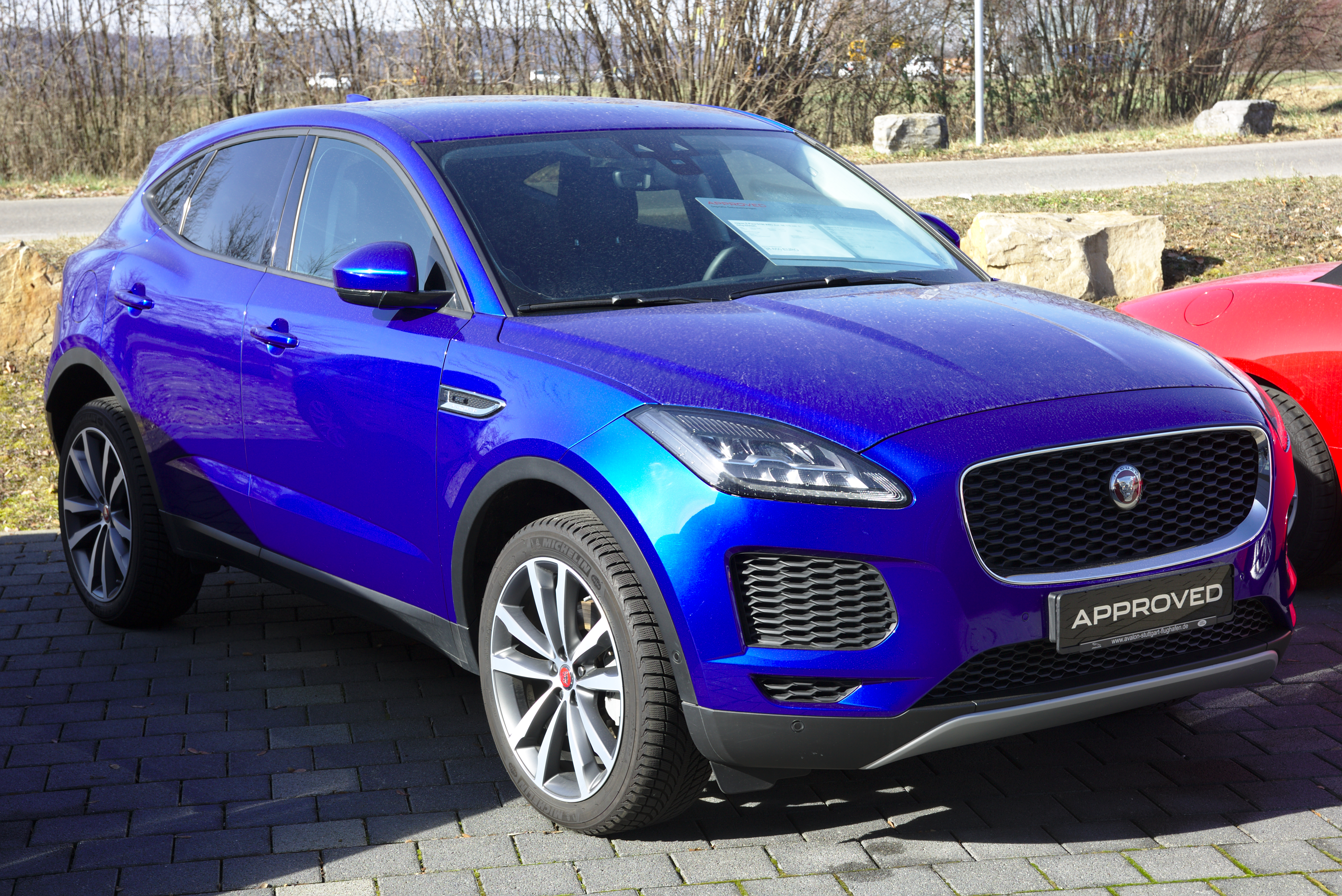 Jaguar E-Pace in Filderstadt 2019